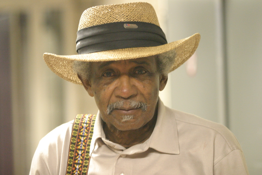 Blues guitarist and vocalist Lazy Lester. Photo by Tom Beetz in 2004